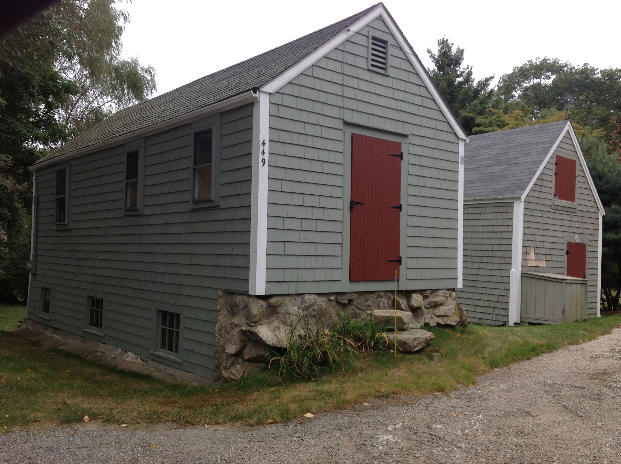 Adams-Crocker-Fish House, 449 Willow St. Barnstable